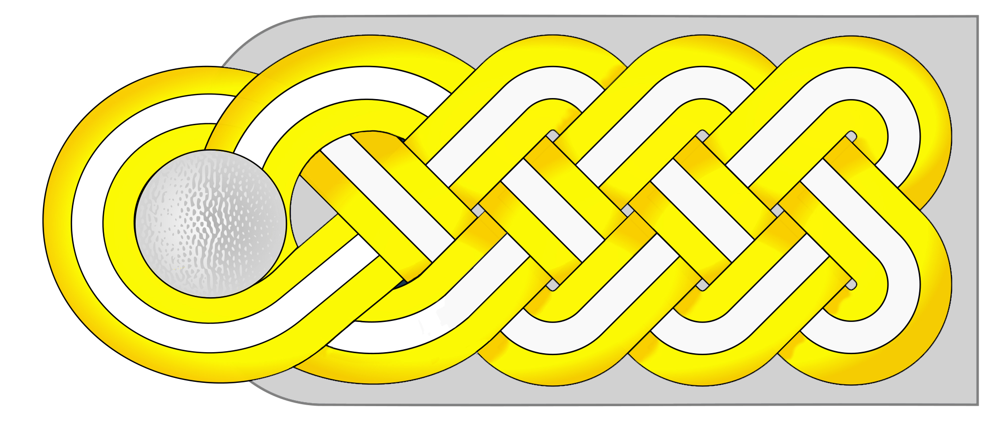 Rang insignia shoulder strap, SS-Brigadefuerer and Generalmajor (One-star rank) of the Waffen-SS until 1945